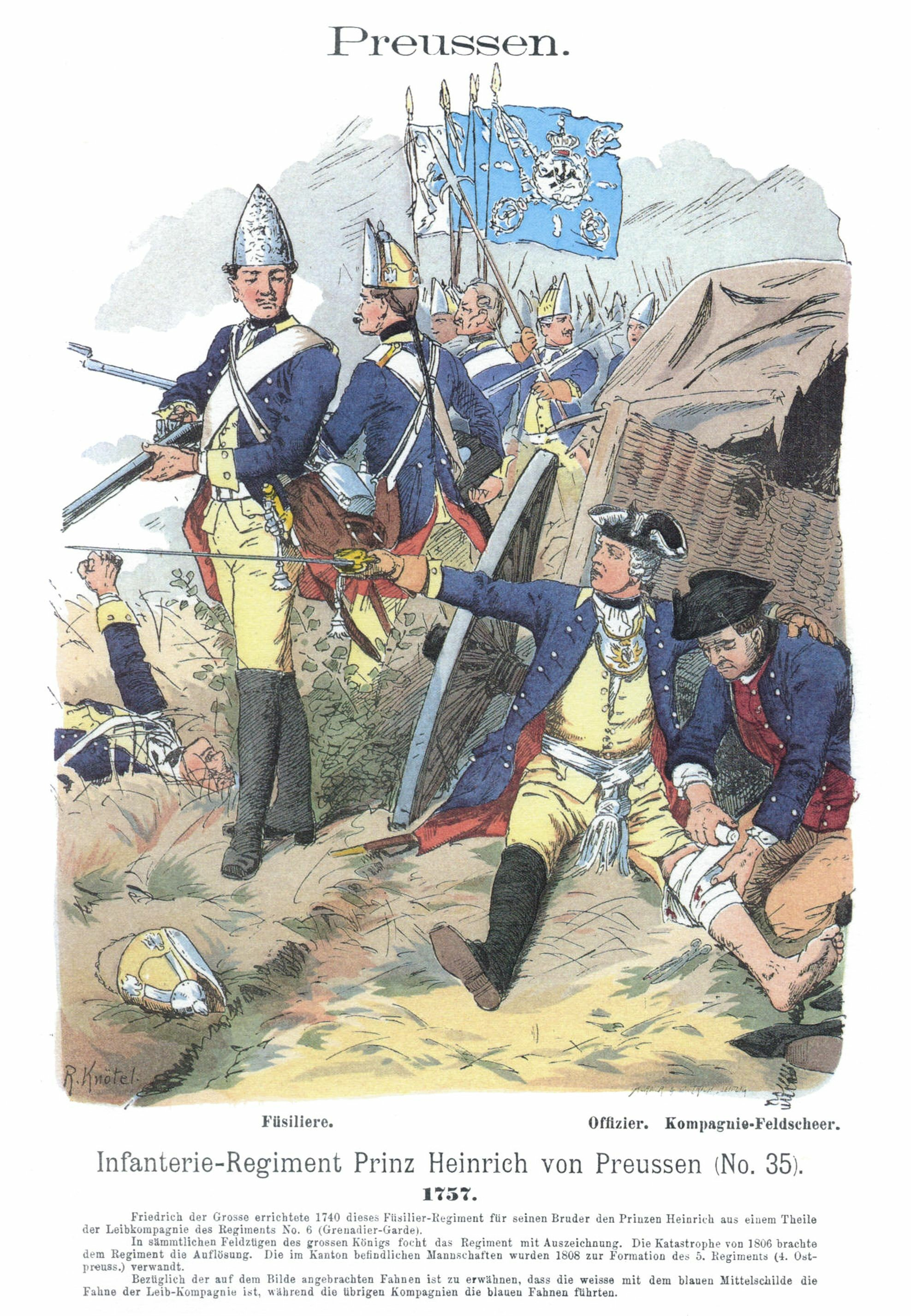 Prussian fusiliers of the Infantry Regiment Prince Henry of Prussia in 1757